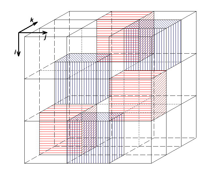 A threedimensional image of the Levi-Civita-Tensor (also Epsilon-Tensor, Levi-Civita-Symbol, Epsilon-Symbol). Empty cubes mean =0, red cubes mean =1, blue cubes mean =-1. From top to bottom goes the first index i (the same with matrices), from left to right goes the second index j (also the same with matrices), from the front to the back goes the third index k.